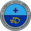 Ministry of Livestock and Fisheries seal မြန်မာဘာသာ: မွေးမြူရေးနှင့် ရေလုပ်ငန်းဝန်ကြီးဌာန တံဆိပ်